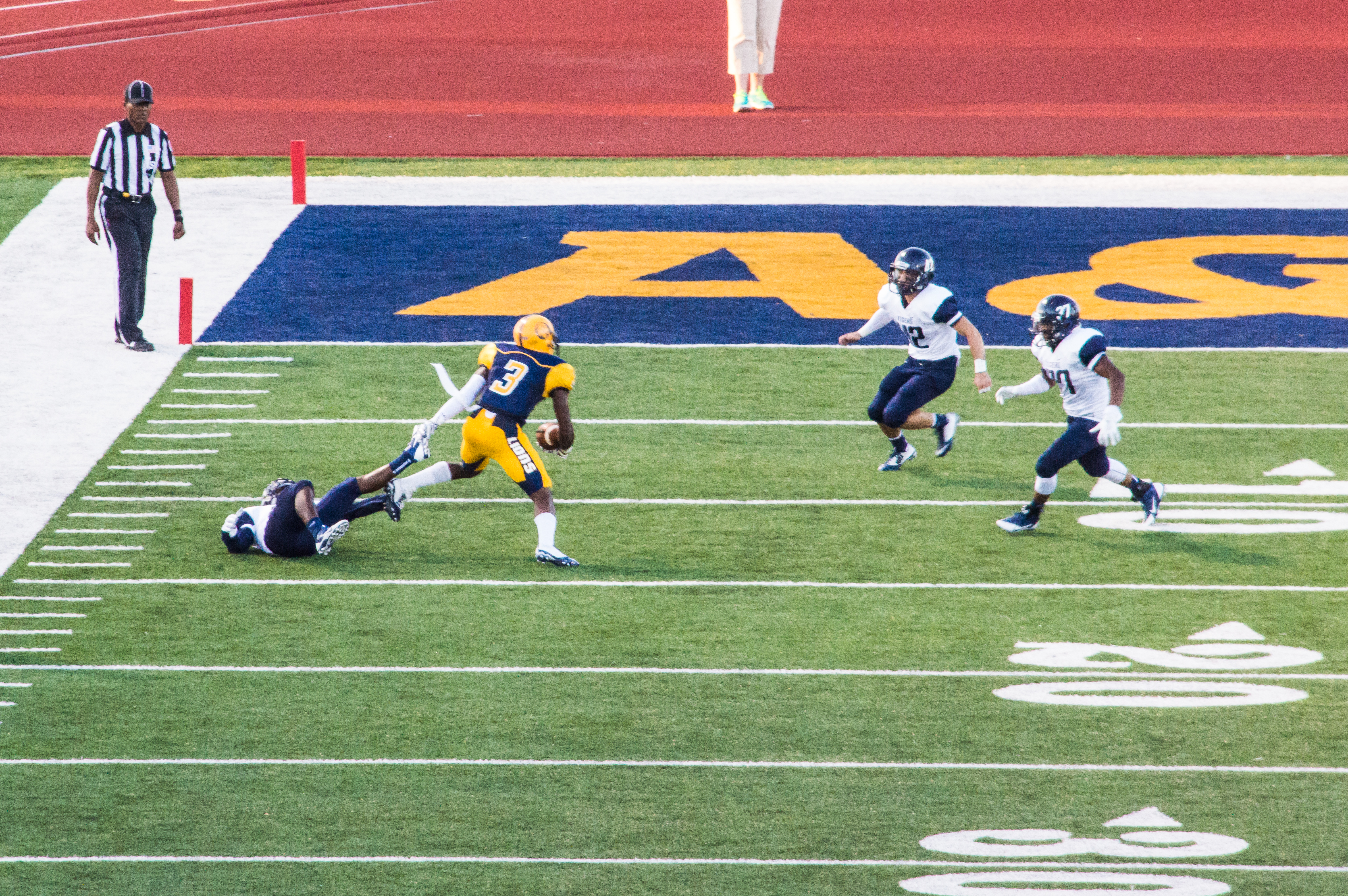 14437-Athletics-Football vs ETBU-7253 Scenes from the East Texas Baptist Tigers vs. Texas A&M–Commerce Lions football game on September 4, 2014.